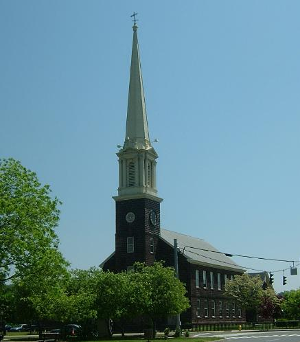 Old Stone Church, East Haven, Connecticut